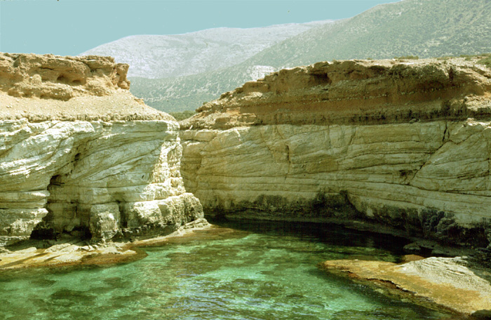 Rocky coast of sea near Darnah, Libya